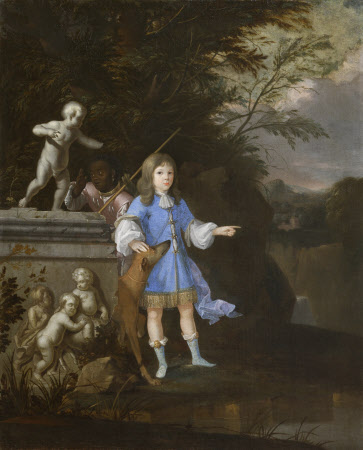 Possibly John Arundell, 3rd Baron Arundell of Trerice (1678–1706), as a boy. Collection of National Trust, Trerice House, Cornwall, purchased at Sotheby's, 2007